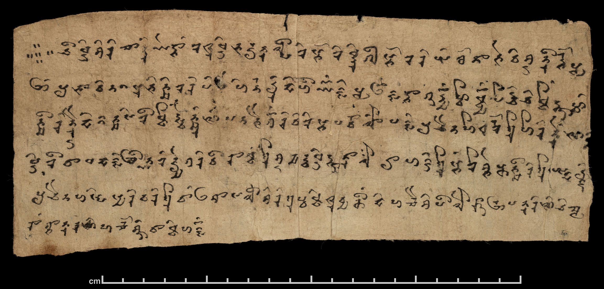 "Khotanese manuscript with a poem written by the Khotanese thanking their Tibetan conquerors for 'guarding this land of Khotan'."